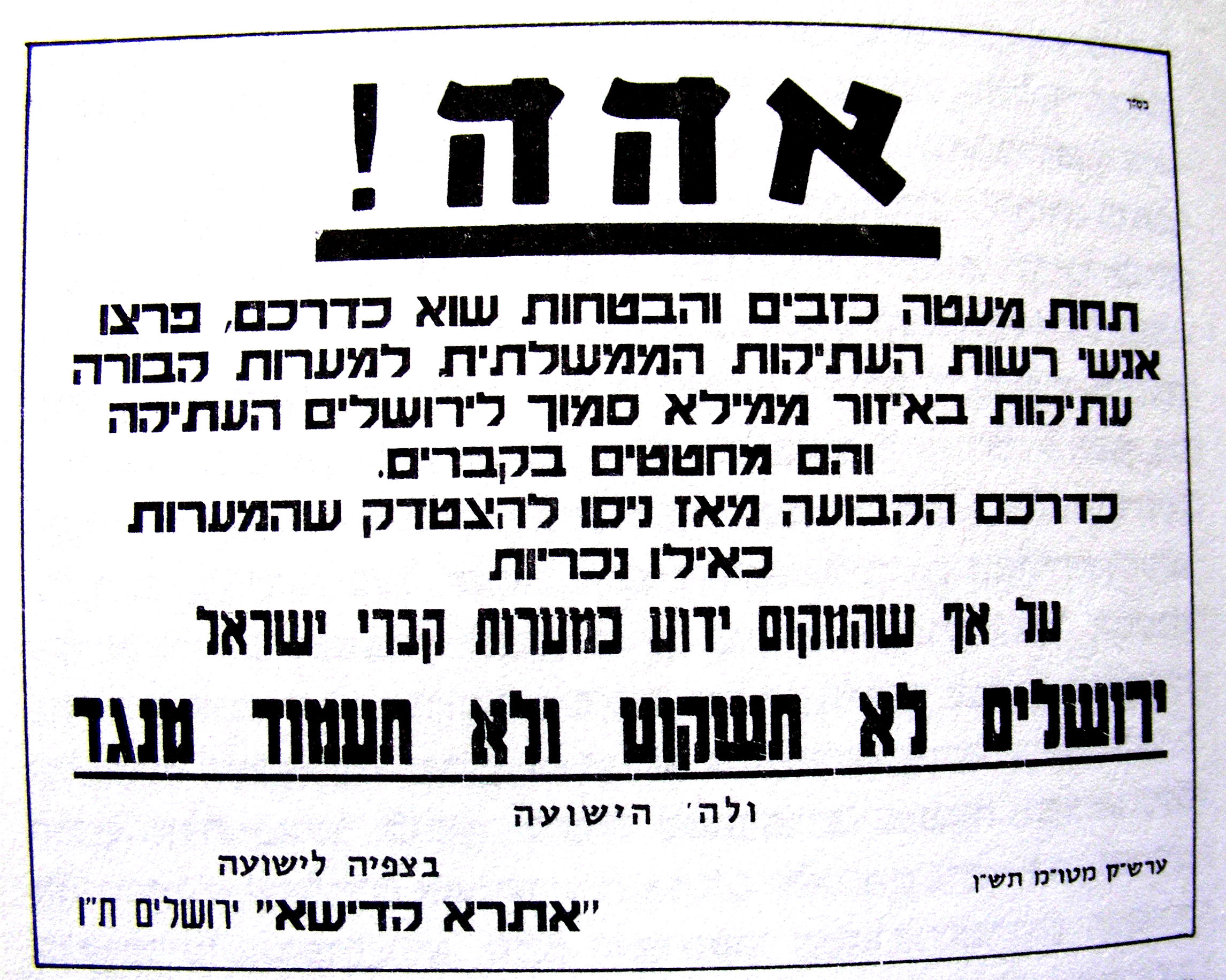 Pashkavil_Mamila